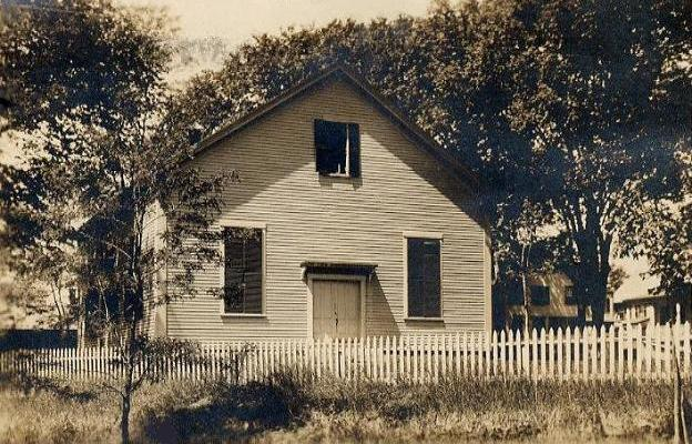 The Friends' Meeting House — Amesbury, Salem, Massachusetts. From a 1911 postcard.